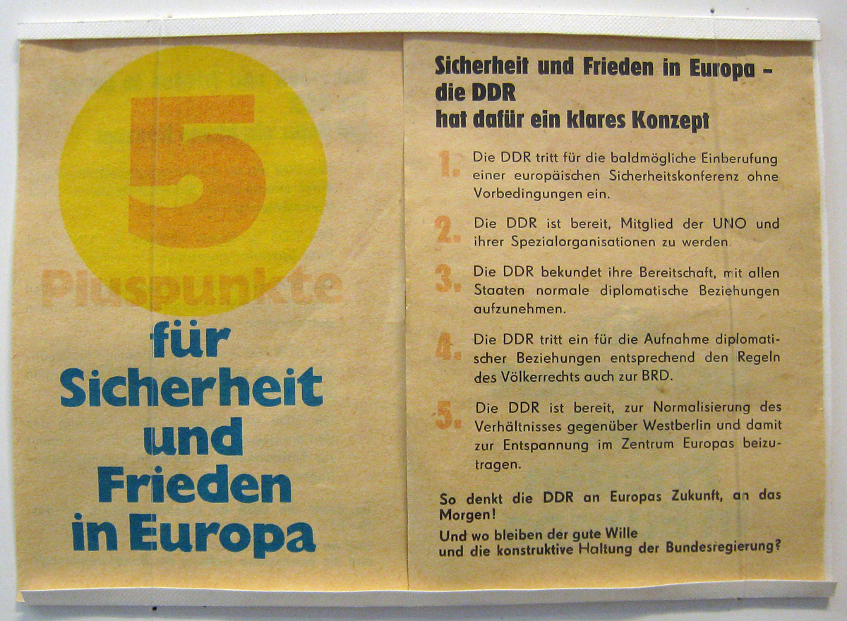 East German propaganda leaflet, fired across the inner German border. On display at the Zonengrenz-Museum, Helmstedt. It translates roughly as thus- 5 Good Points for Security and Peace in Europe Security and peace in Europe– the GDR has a clear plan for it. 1. The GDR is effectively calling for a convening of a European security conference as soon as possible without preconditions. 2. The GDR is ready to become a member of the UN and its specialized agencies. 3. The GDR has expressed their willingness to establish normal diplomatic relations with all states. 4. The GDR is in favor of the establishment of diplomatic relations in accordance with the rules of international law and the FRG (West Germany). 5. The GDR is prepared to contribute to the normalization of relations with respect to West Berlin, and thus contribute to the relaxation of the center of Europe. This is how the GDR thinks ahead for Europe's future, its tomorrow! And where has been the good will and constructive attitude of the (West) Federal Government?